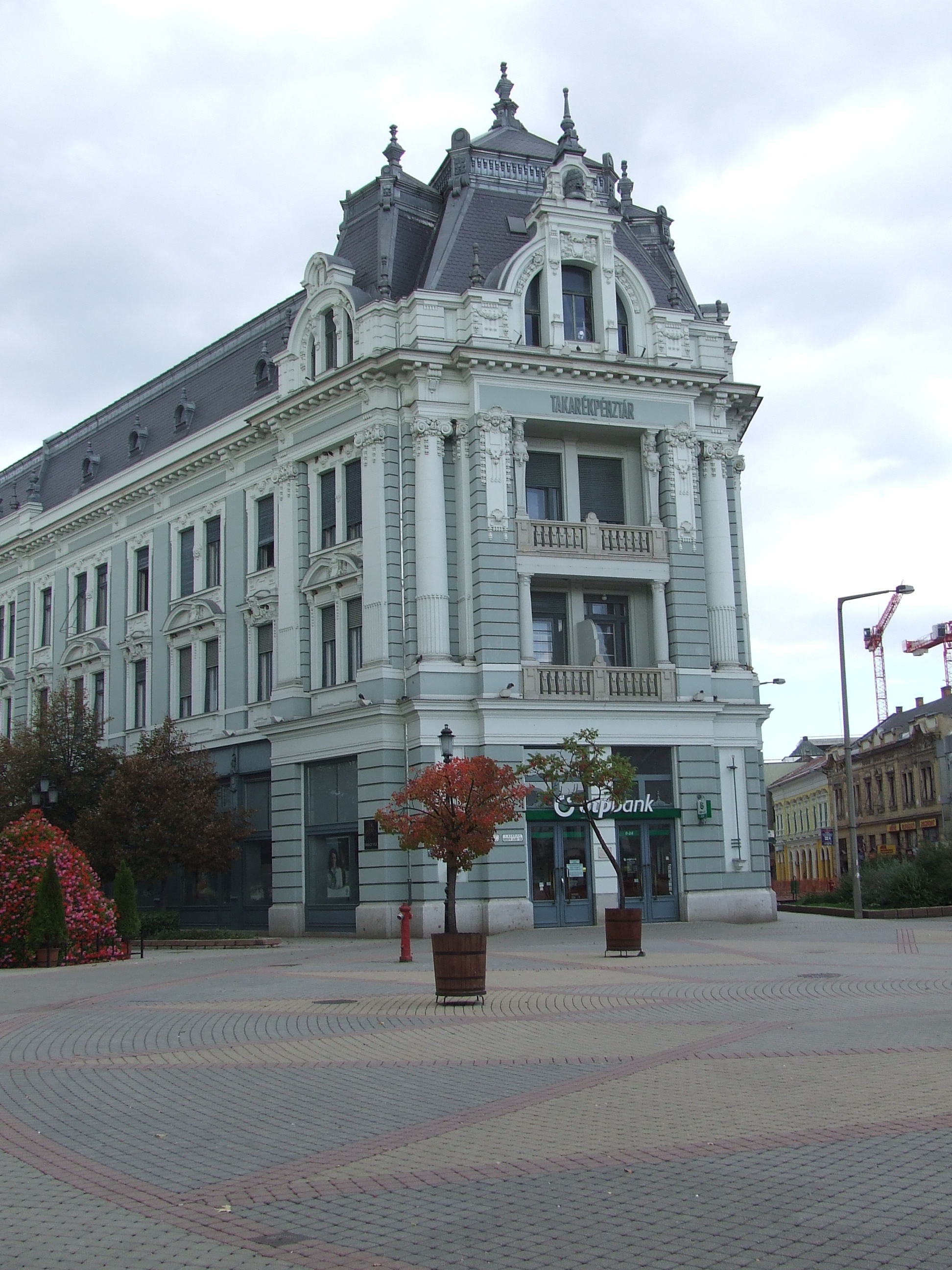 The building called "Takarékpalota" in the city centre of Nyíregyháza. József Hubert, 1912.